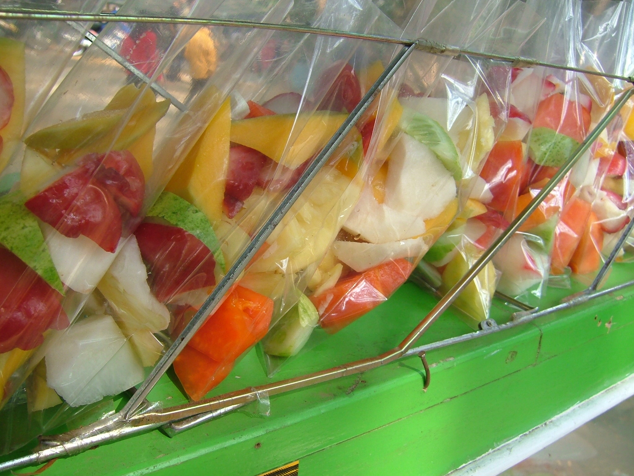 Rujak manis, colorful combination of seasonal fruits at street vendor in West Java, Indonesia. ルジャッの屋台。色とりどりの季節の果物に黒砂糖のソースをかけて食べる。